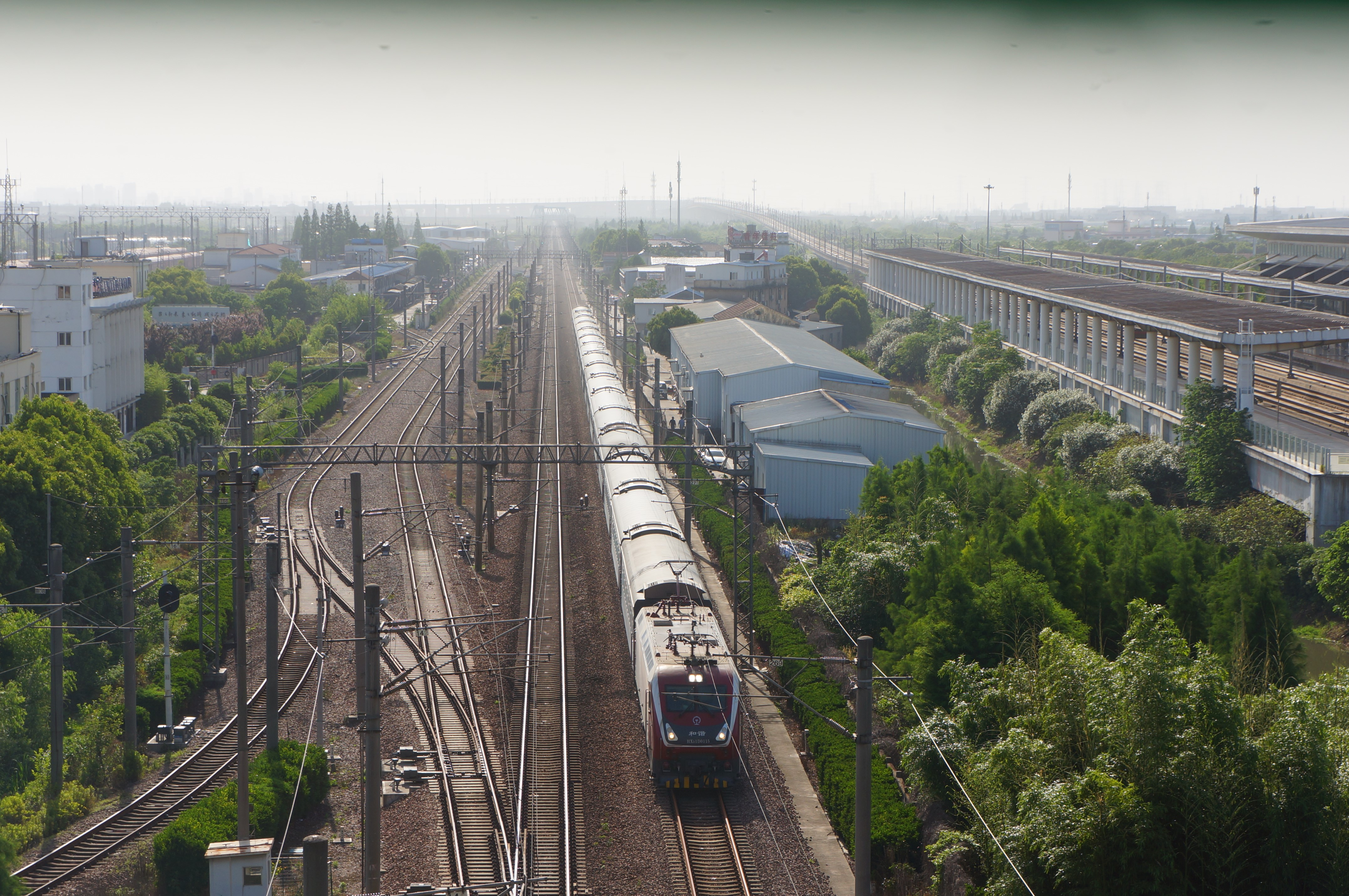 201805 HXD1D-0115 hauls K1331 from Yinchuan passes Nanxiang-Passazhirskiy